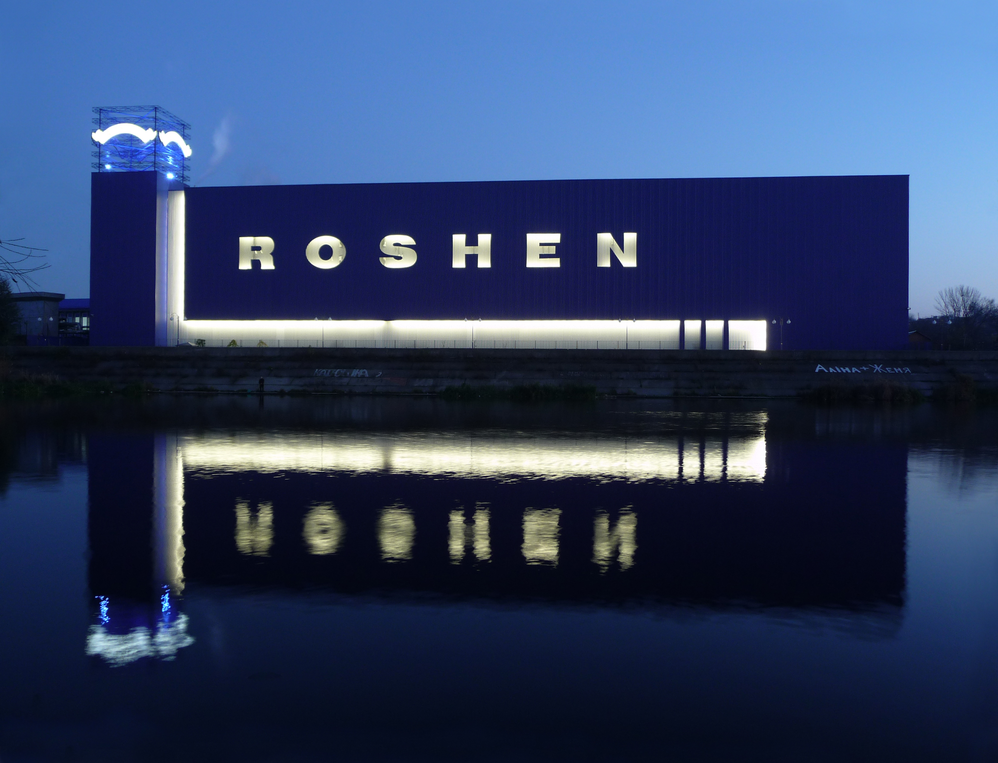 Confectionery factory "Roshen" in the evening. Vinnitsa, Ukraine. The Southern Bug river bank.